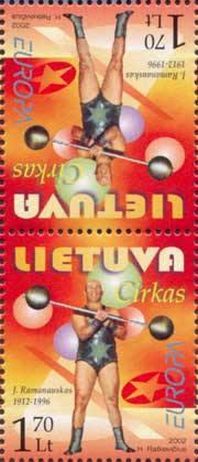 Lithuanian postage stamp ‘EUROPA.CIRKAS’. More details: The man in stamp – Jonas Ramanauskas (1912-1996) as power juggler, known lithuanian circus artist.